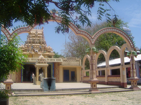 Front view of the Muneeswaran temple, Jaffna, a Hindu place of worship located near Dutch fort in Jaffna, Sri Lanka.